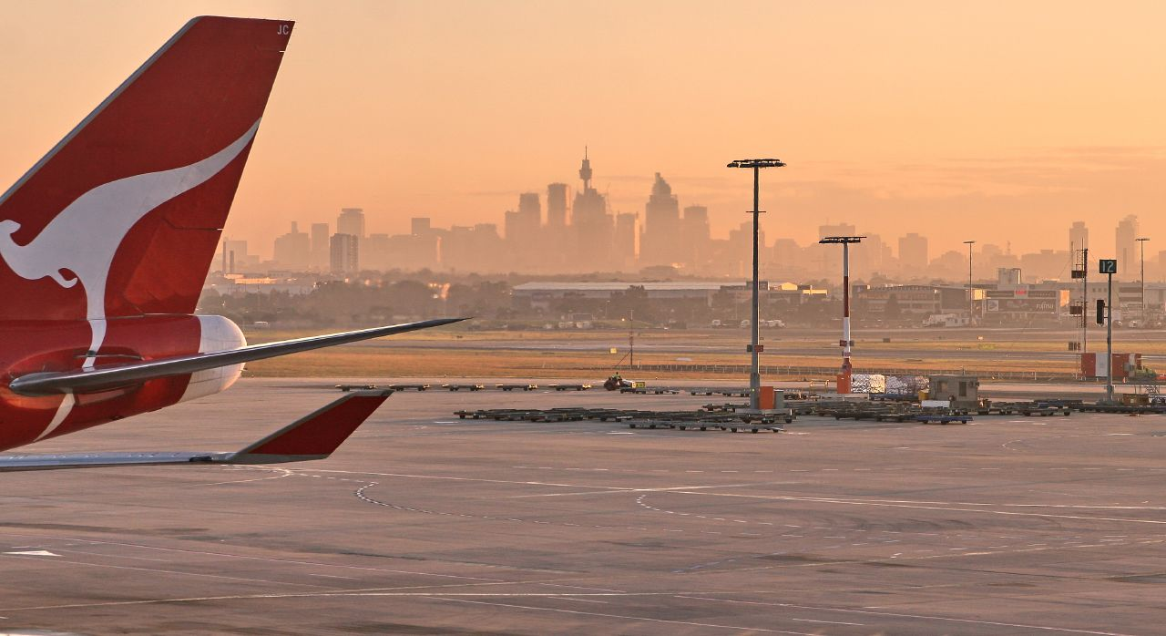 Sydney at dawn, QANTAS plane at Sydney Airport